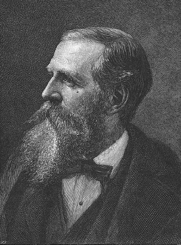 An engraving from a photograph of Robert Swain Gifford.